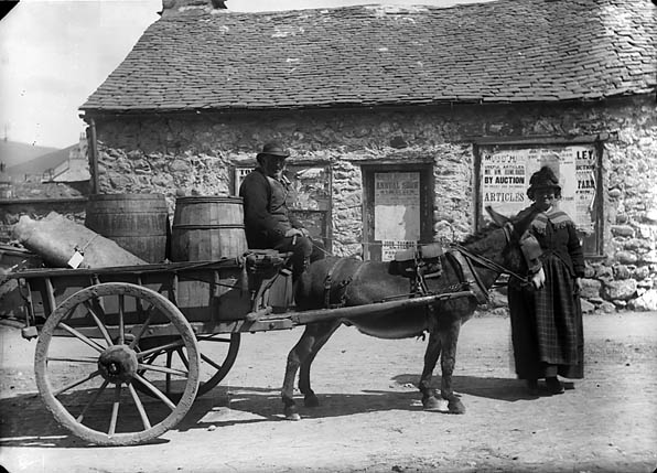 1 negative : glass, dry plate, b&w ; 12 x 16.5 cm.